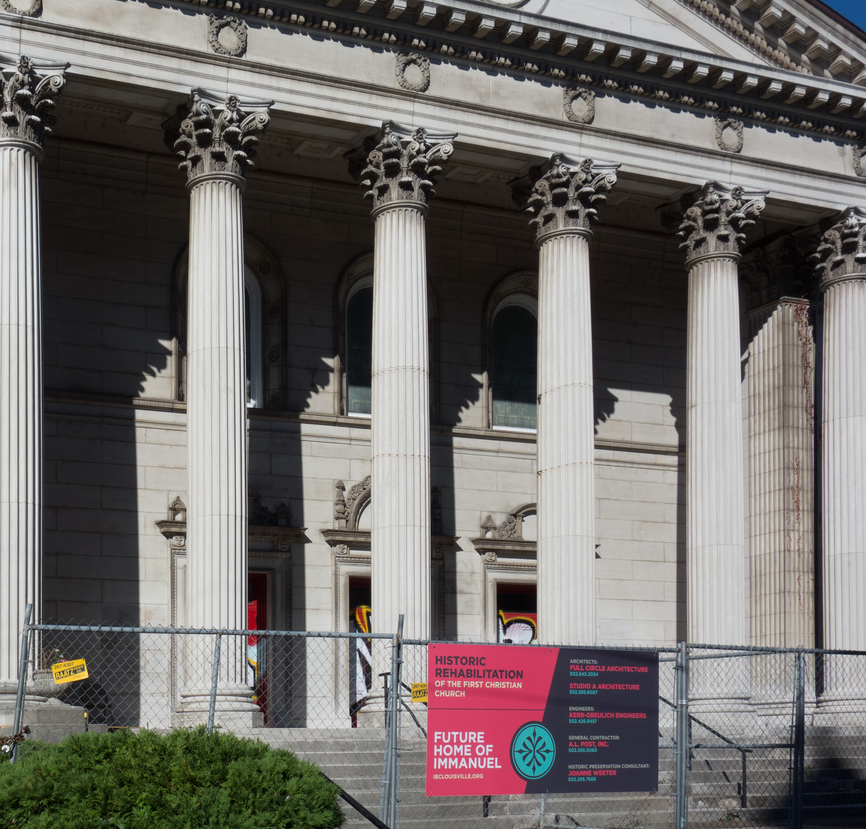 First Christian Church (Immanuel Baptist Church), 850 S. 4th Street, Louisville KY. NRHP ID 79001005